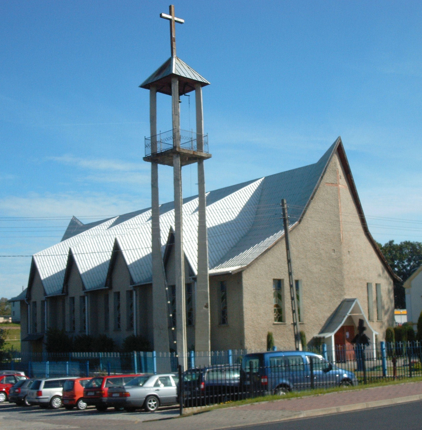 Newly built church in Łęknica